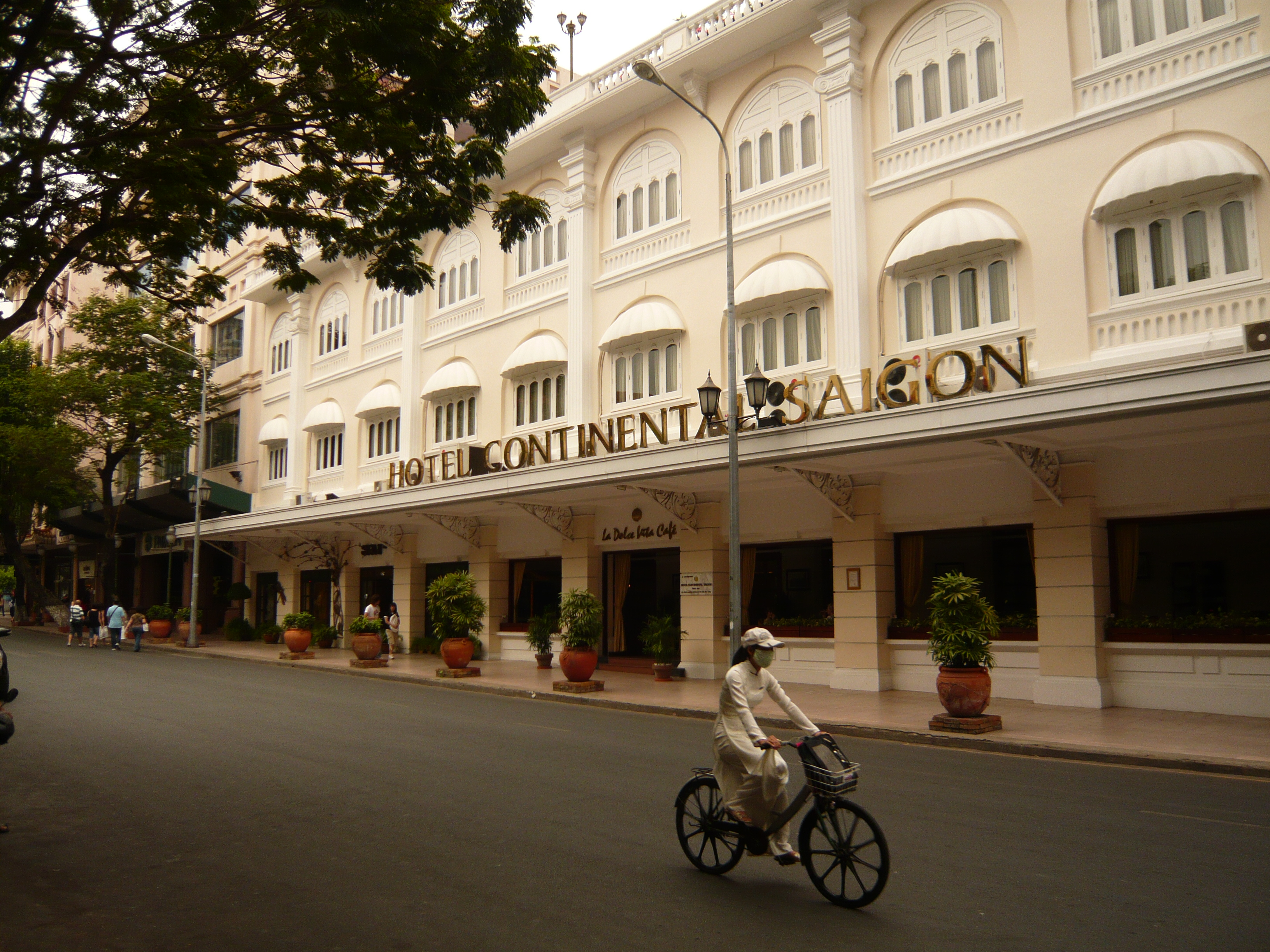 Hotel Continental in Ho Chi Minh City